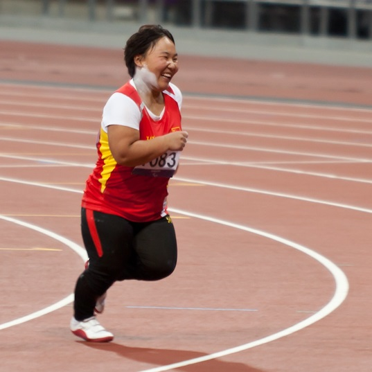 Genjimisu Meng or Jimisu Menggen - Chinese F40 Shot put or discus in London 2012 - crop of File:Genjimisu Meng, Shot Putt.jpg